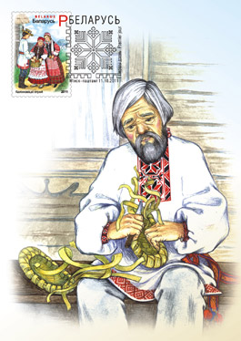 Old man in belarussian national costume